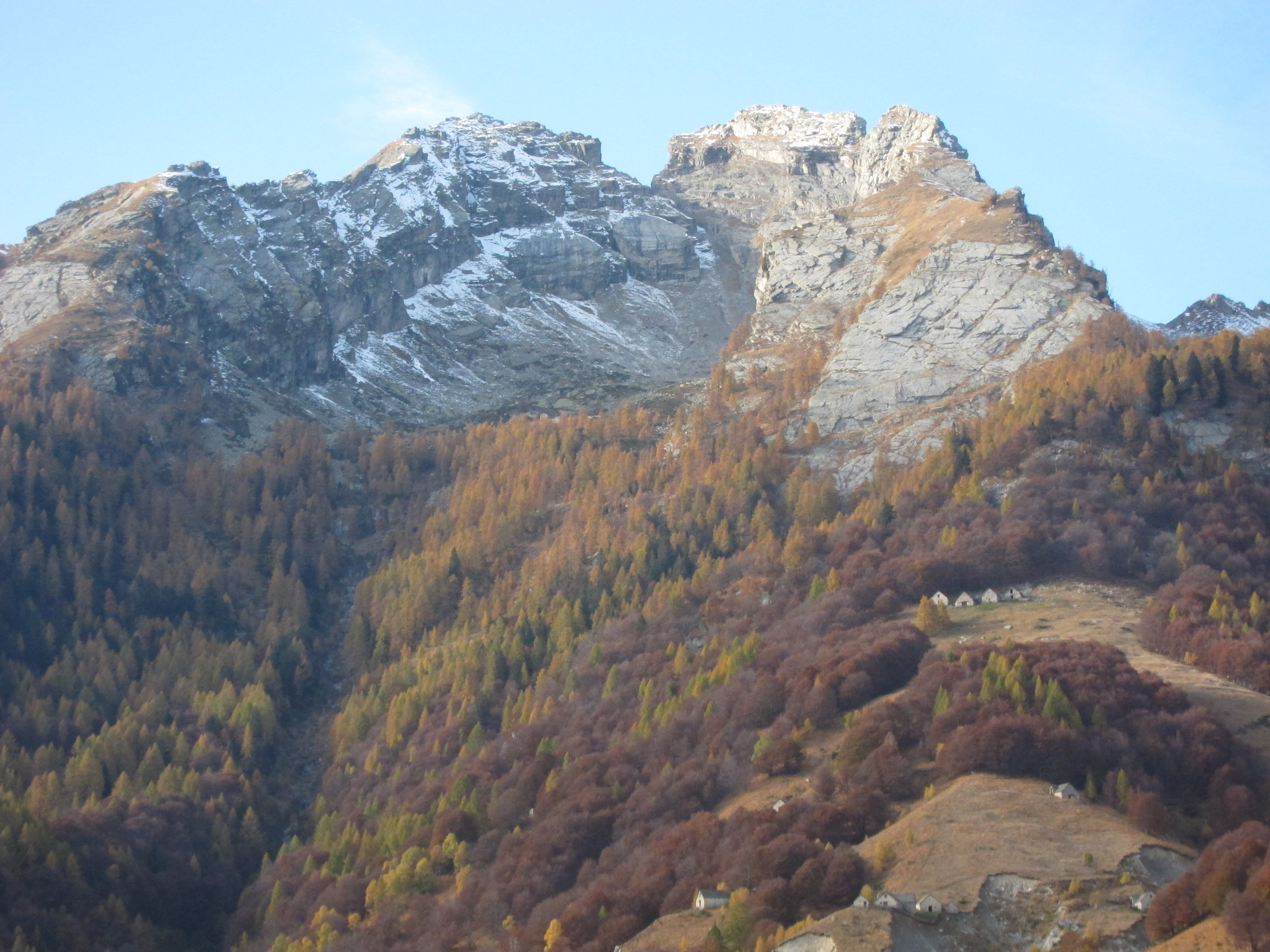 Mount Pizzo La Scheggia (m.a.s.l. 2466), Vigezzo Valley, Lepontine Alps, Piedmont, Italy. Autumn colors in November 2011